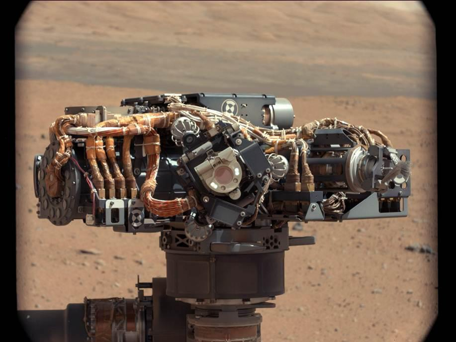 09.12.2012 Hello, MAHLI This image shows the Mars Hand Lens Imager (MAHLI) on NASA's Curiosity rover, with the Martian landscape in the background. The image was taken by Curiosity's Mast Camera on the 32nd Martian day, or sol, of operations on the surface (Sept. 7, 2012, PDT or Sept. 8, 2012, UTC). MAHLI, with its LED (light-emitting diode) lights on, can be seen in the middle of the picture. Scientists and engineers imaged MAHLI to inspect its dust cover and check that its LED lights are functional. Scientists enhanced the color in this version to show the Martian scene as it would appear under the lighting conditions we have on Earth, which helps in analyzing the terrain.